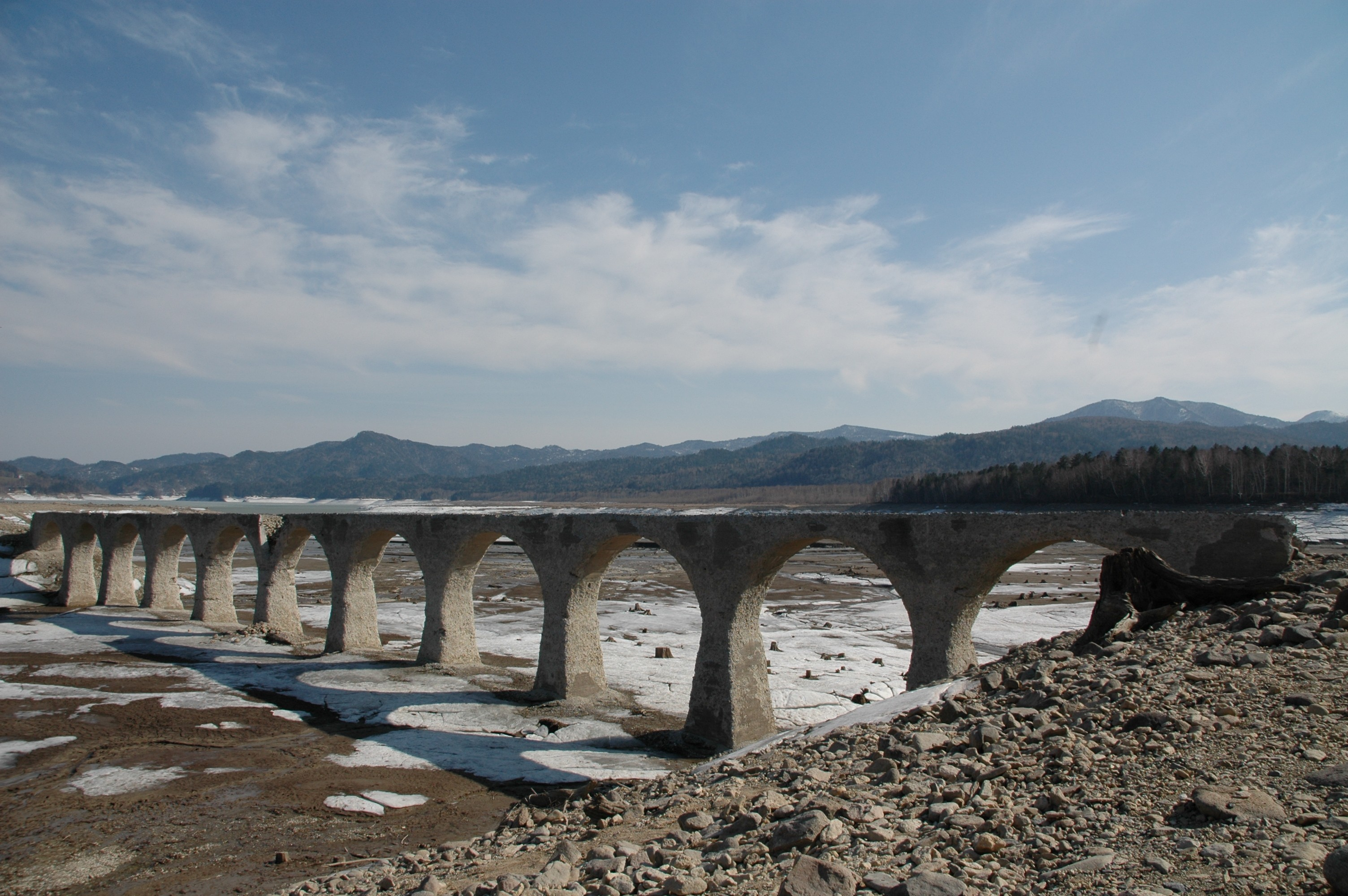 Taushubetsu Bridge, Kamishihoro, Hokkaido, Japan in May, 2006.